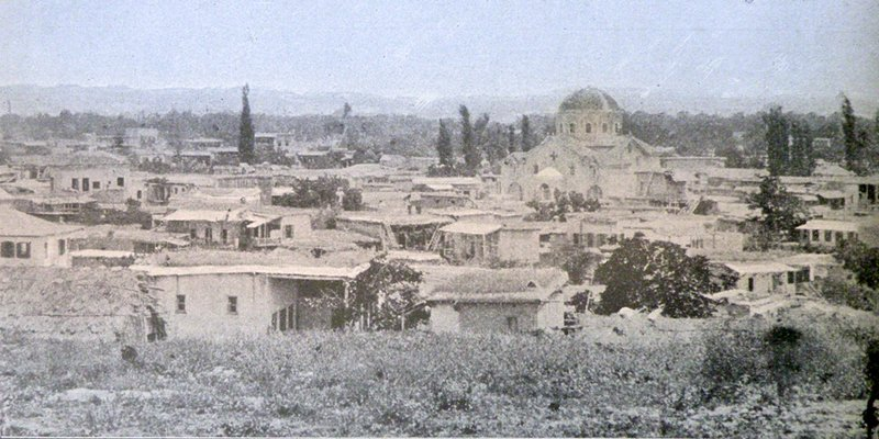 The town of Tarsus and the church of St. Paul Armenian church